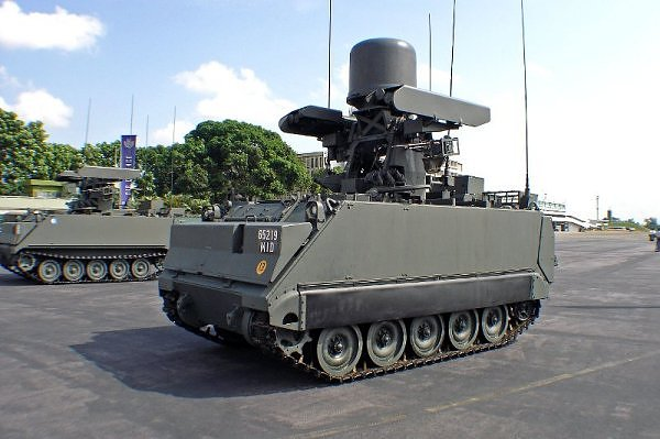 M-113A2 Ultra Mechanised Igla IFU (Integrated Fire Unit). Note the fire-control radar.